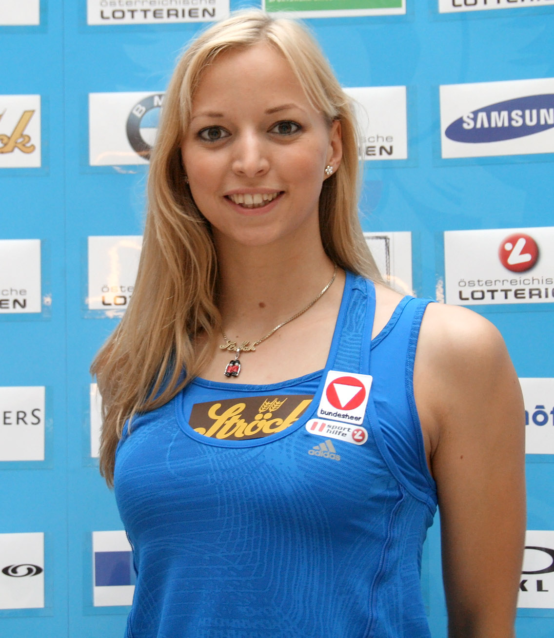 Synchronized Swimmer Nadine Brandl at the hand-out of the Austrian teams official attire for the 2012 Summer Olympics in London (Marriott, Vienna).